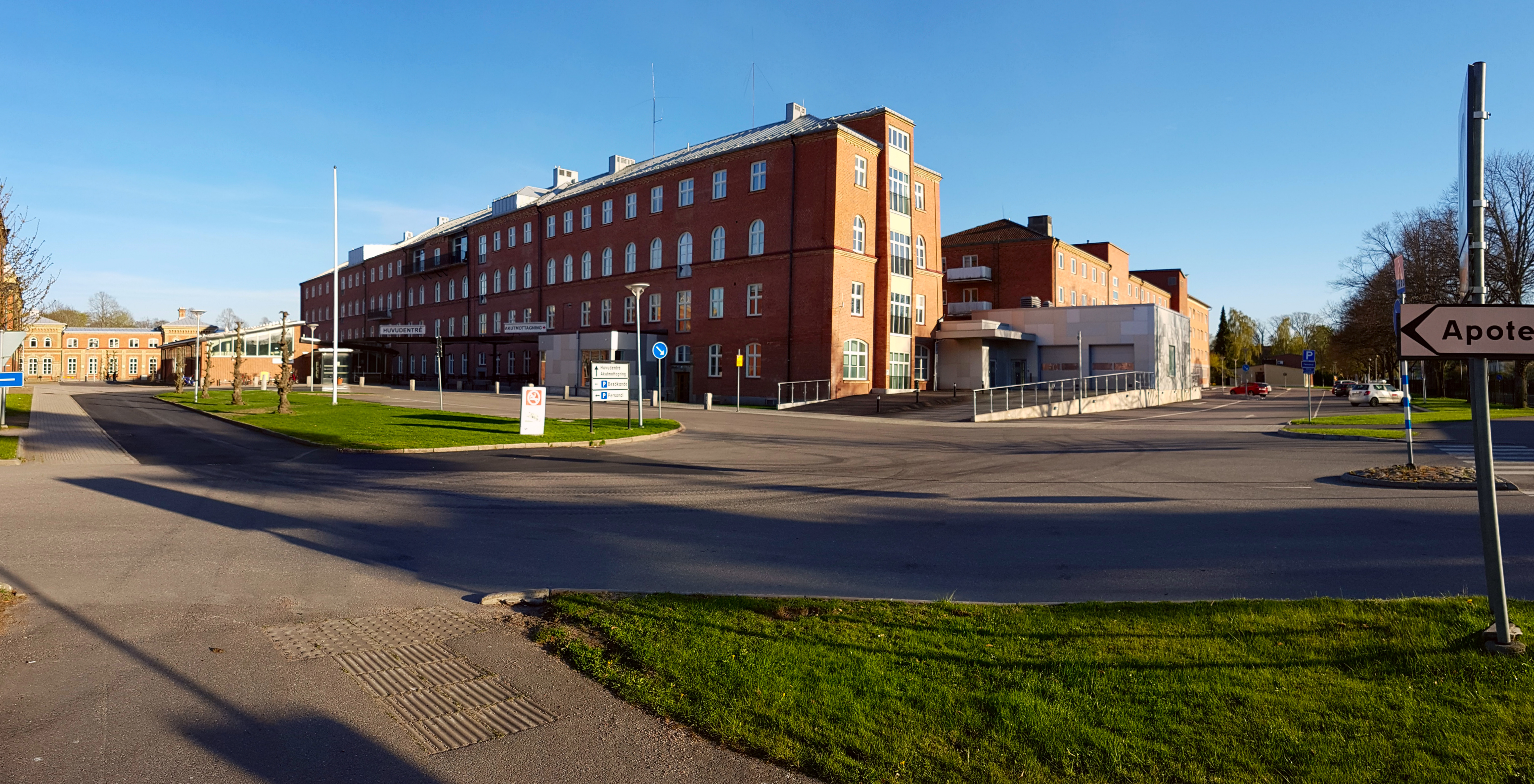 The Hospital in Lidköping, Sweden